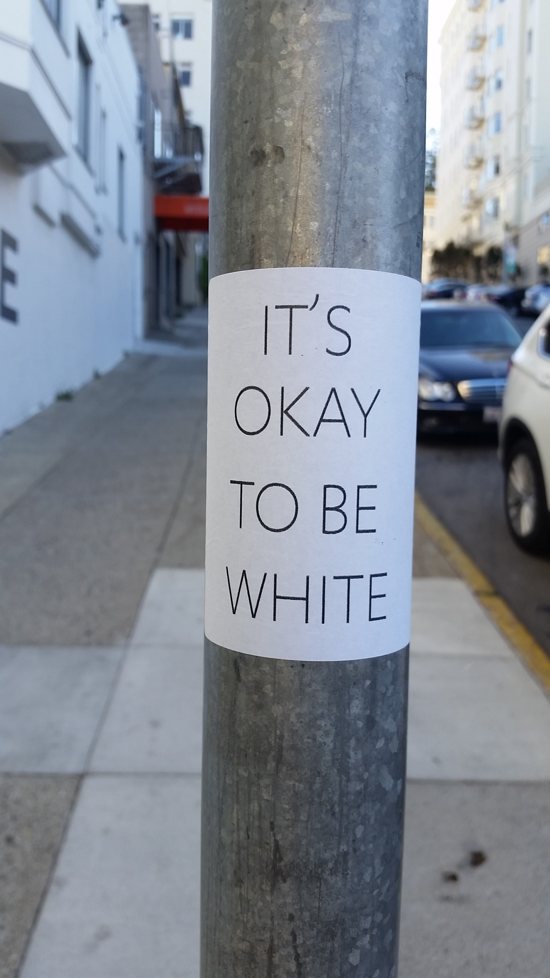 "It's OK to be white" sticker on a post